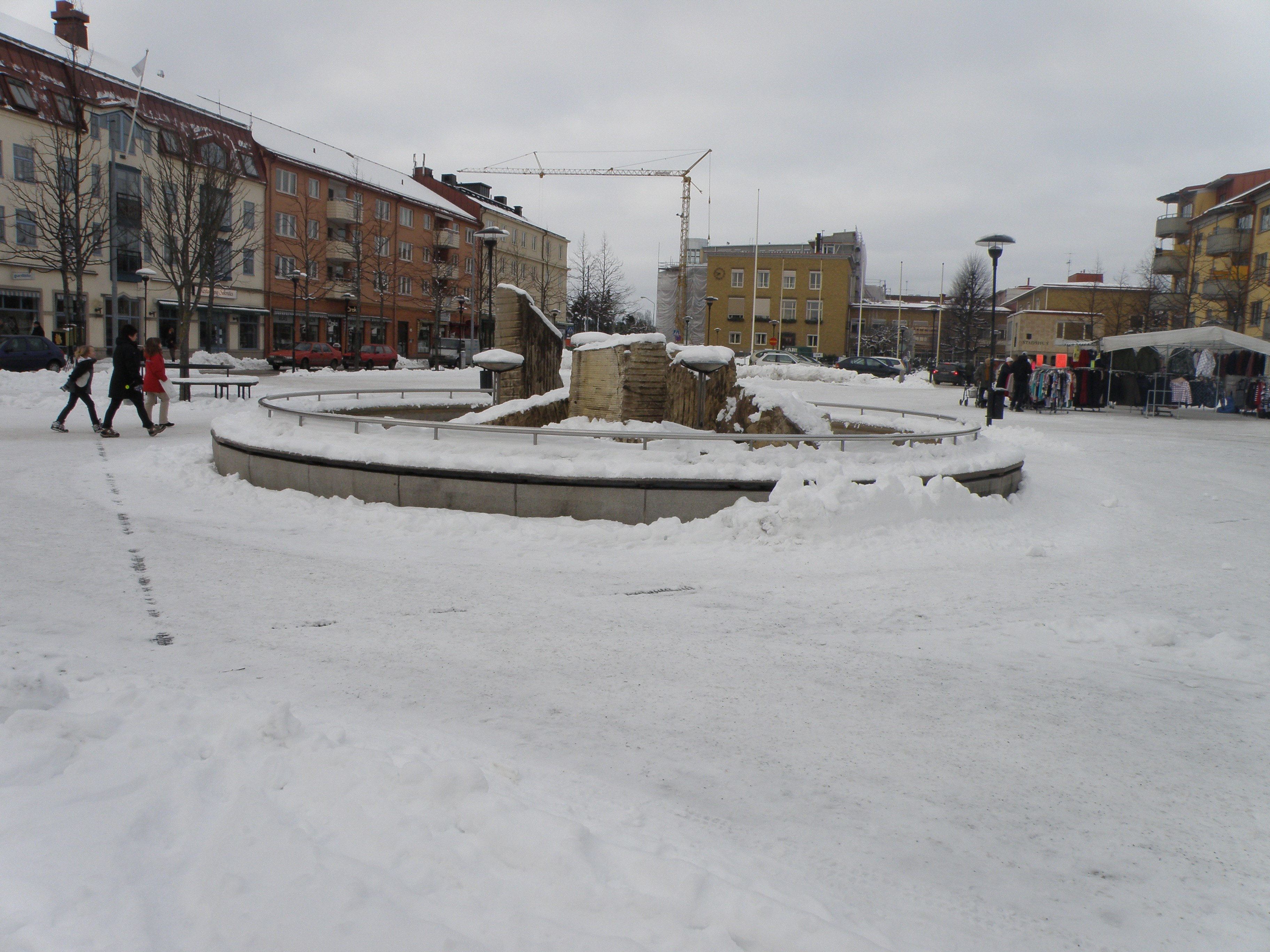 Kumla centrum